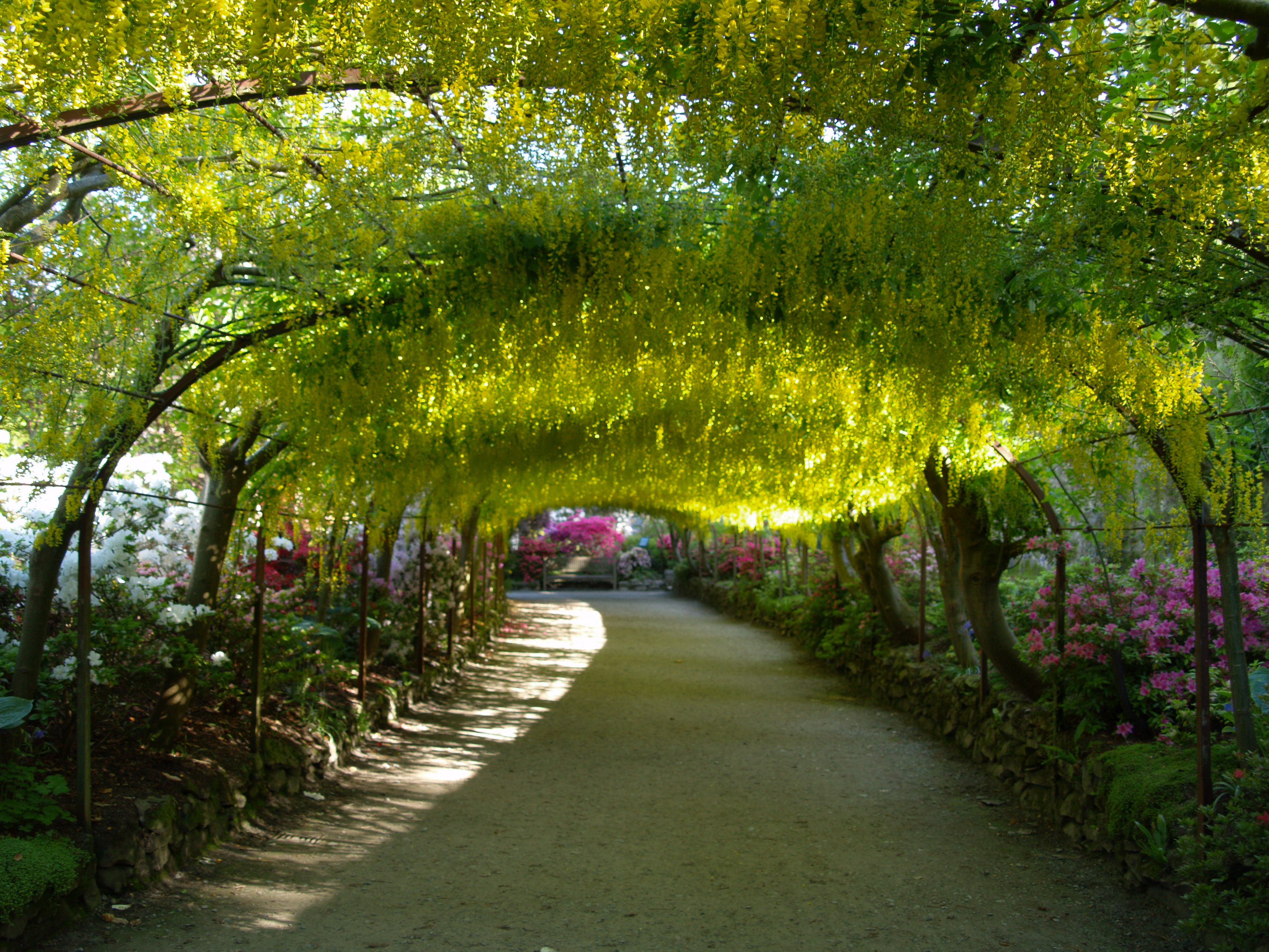 The Laburnum Arch at Bodnant Garden, Conwy, Wales